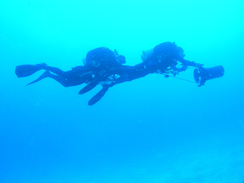 Brownies Third Lung Overhauled Jody's Gavin with new motor and batteries. It was dead at the dive drop. We would keep the trigger connections in the motor. They kept falling out. So we dove three with two scooters. The two of them had no problem keeping up with me on the 5 minute ride to the DDM from the Berry Patch